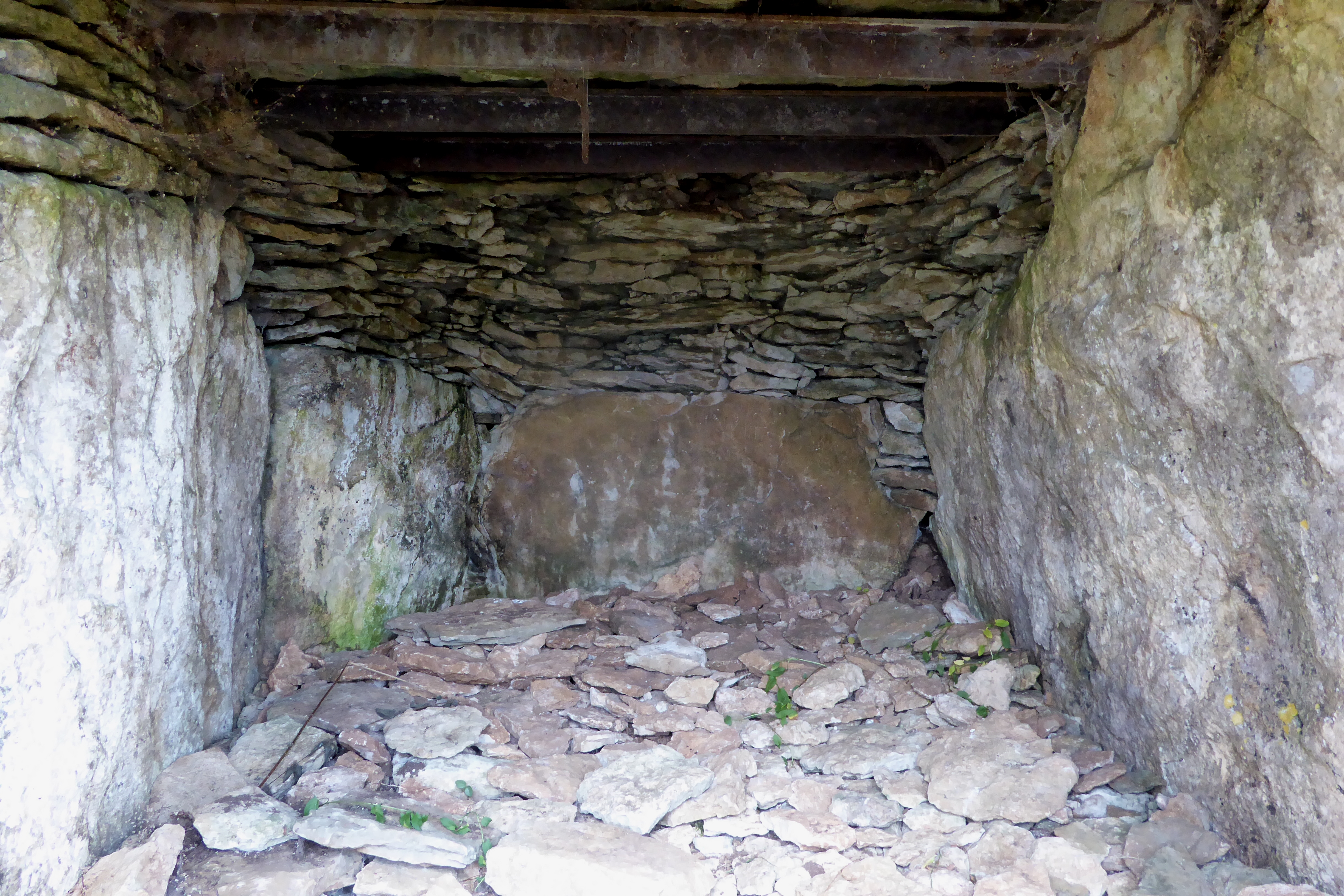 The interior of the Lanhill Long Barrow Chamber in Wiltshire.